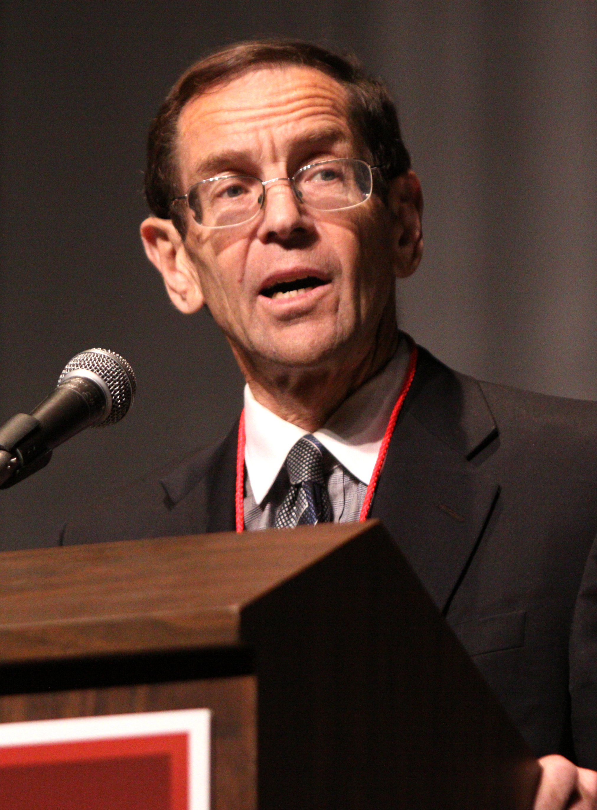 Bruce Fein at a political conference in Reno, Nevada.